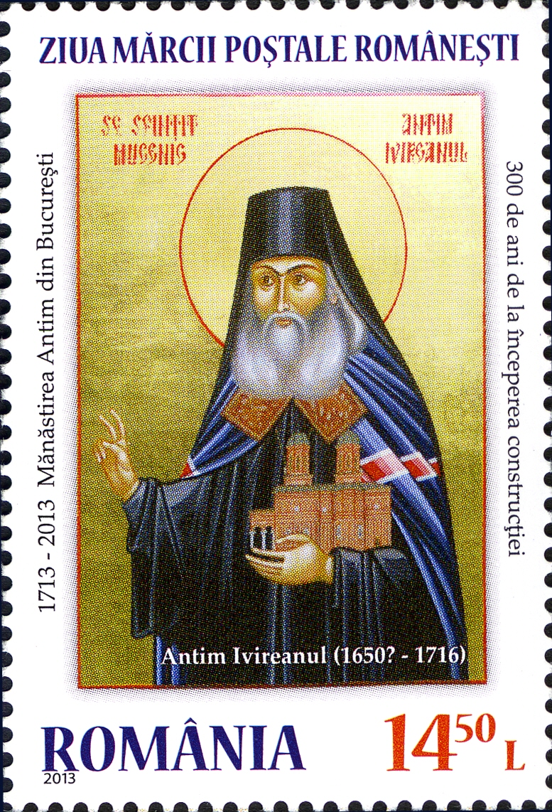 Stamps of Romania, 2013